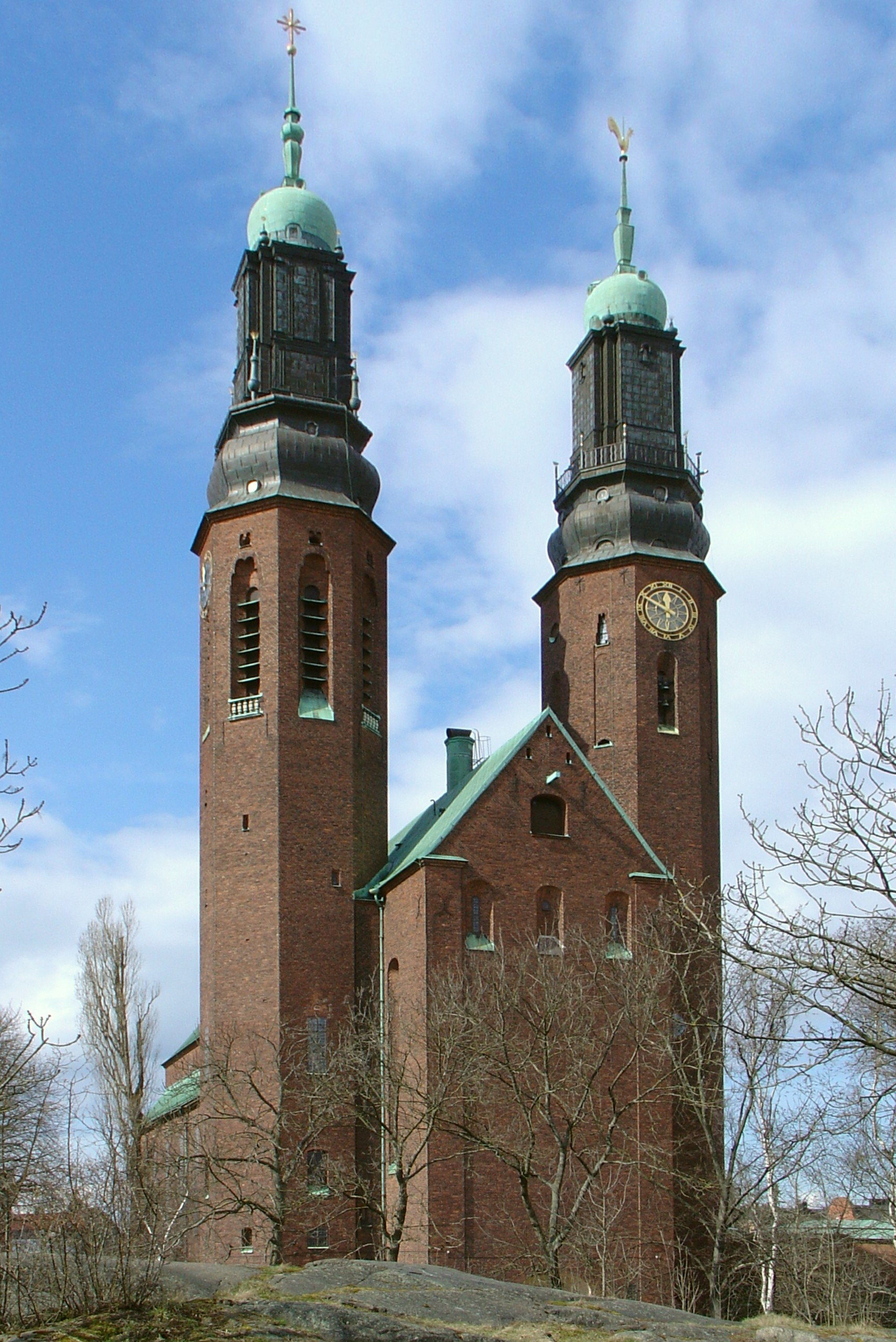 Högalidskyrkan in Stockholm